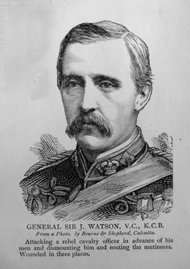 Image of General Sir J.Watson,V.C. K.C.B.